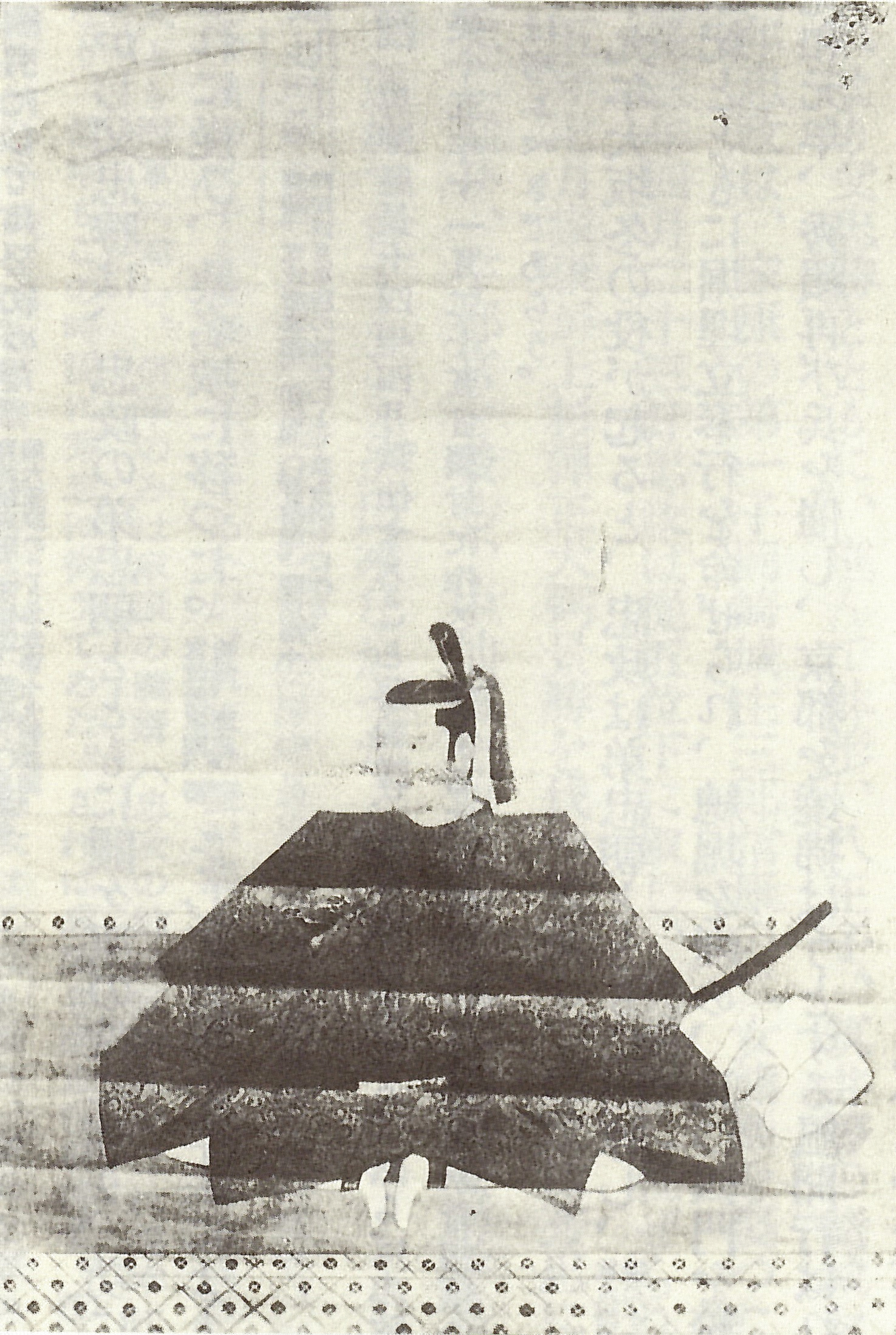 Portrait of Honda Tadatoki